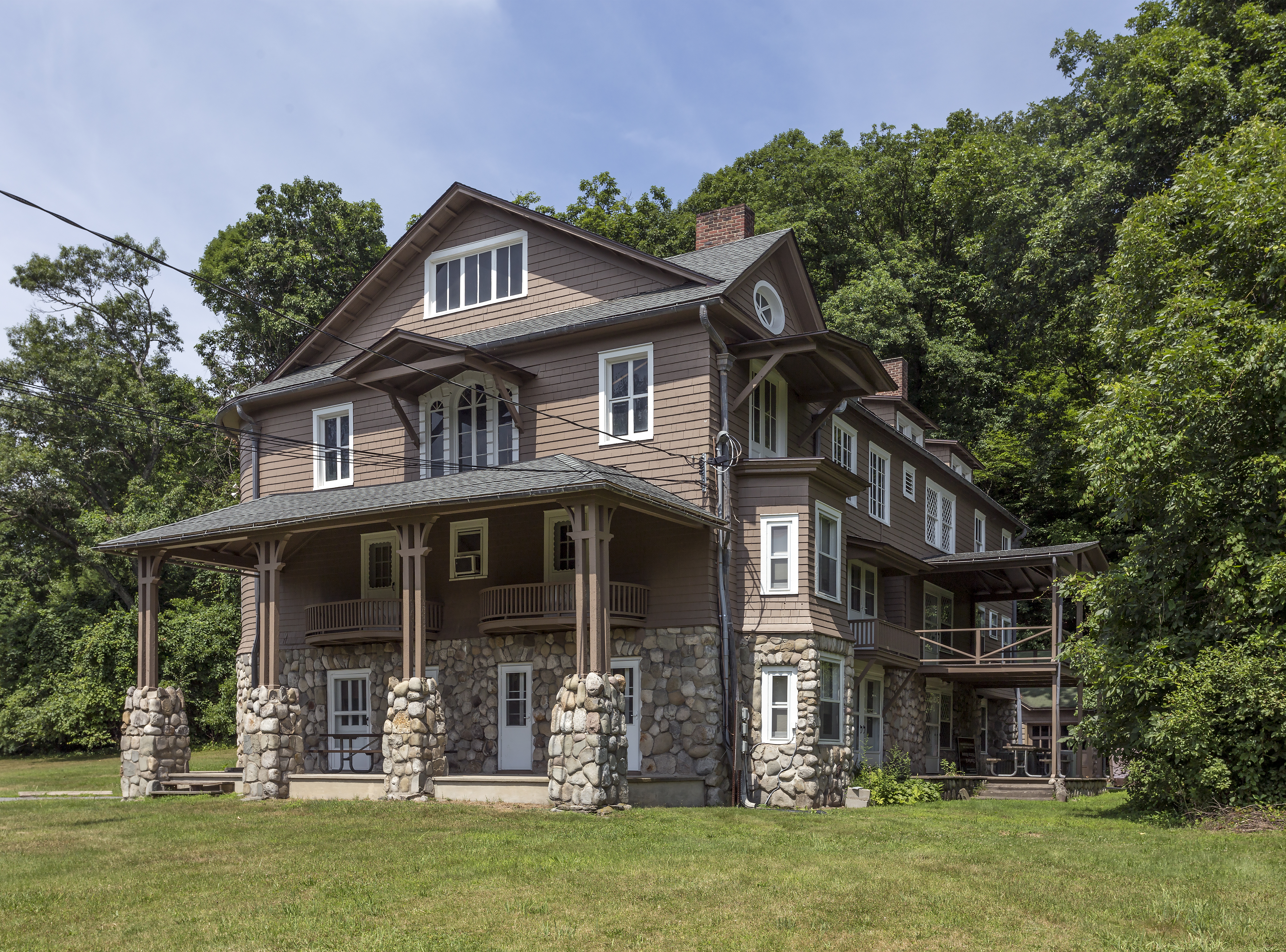 "Arisbe", the Charles S. Peirce house near Milford, Pennsylvania, USA. It houses the Research and Resource Planning Division of Delaware Water Gap National Recreation Area.